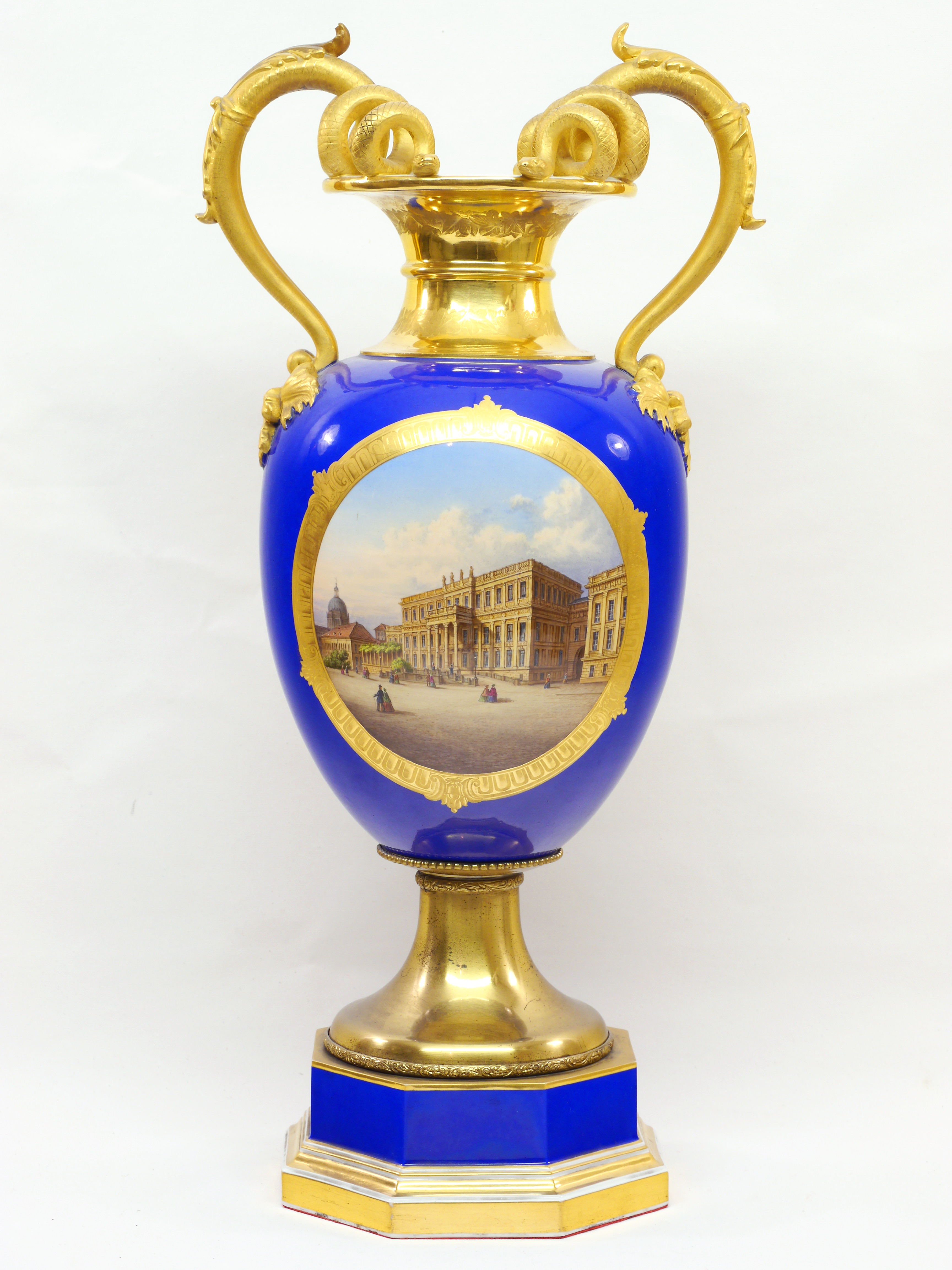 palais for the crown prince in BerlinKPM Berlin, 1849-1870